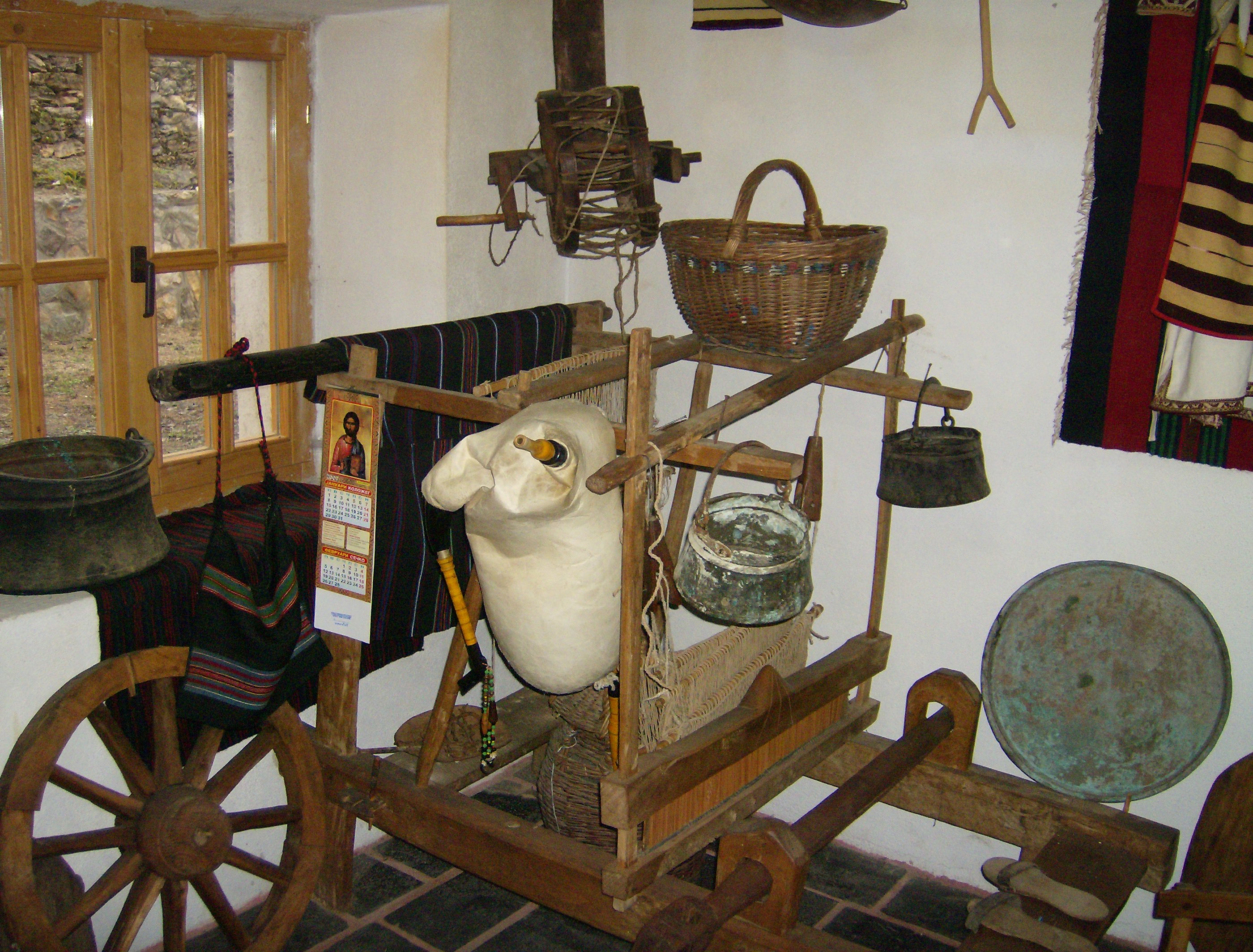 Albibib3.jpg